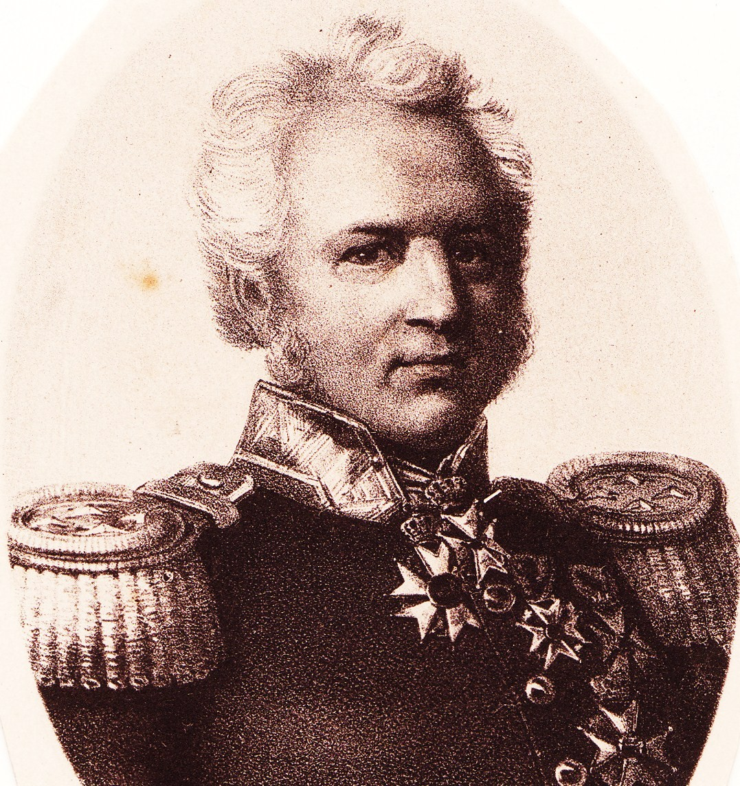 Baron Tindal